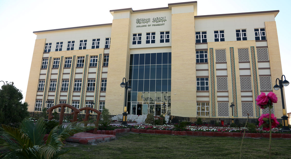 Faculty of Pharmacy - Alkafeel University